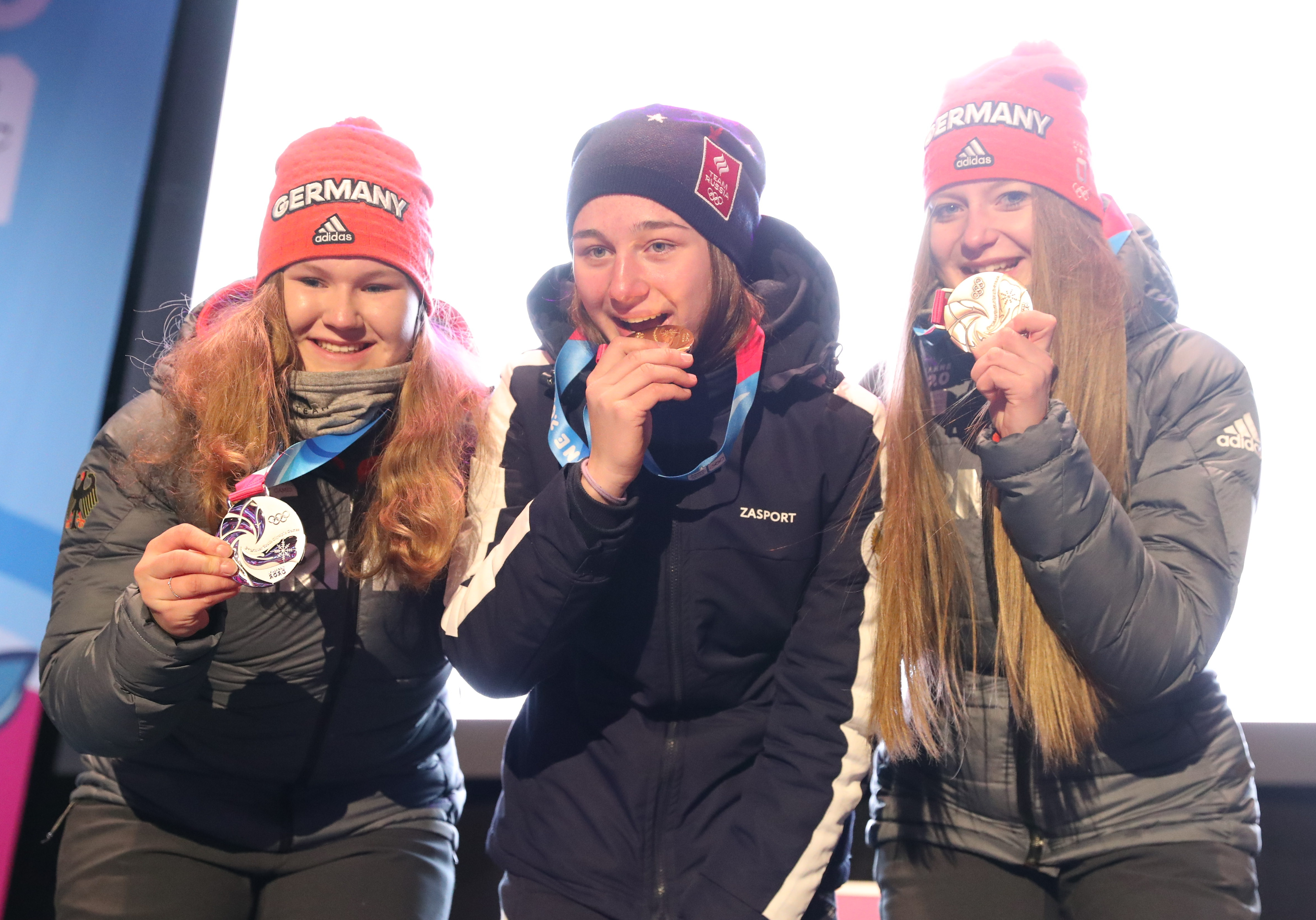 Medal Ceremony Day 11 in St. Moritz, 2020 Winter Youth Olympics in Lausanne